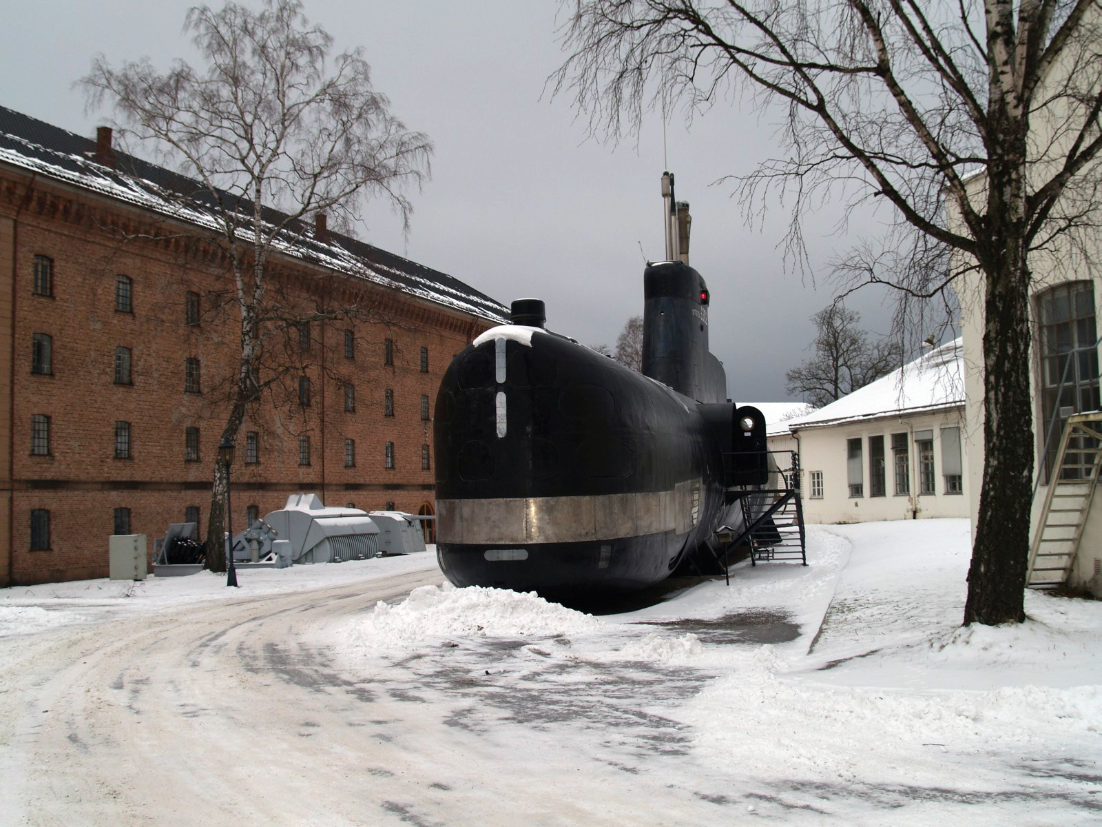 The picture shows the submarime KNM Utstein, at the Norwegian Naval Museum in Horten, Norway. Picture taken by me, Ulf Larsen in January 2006.